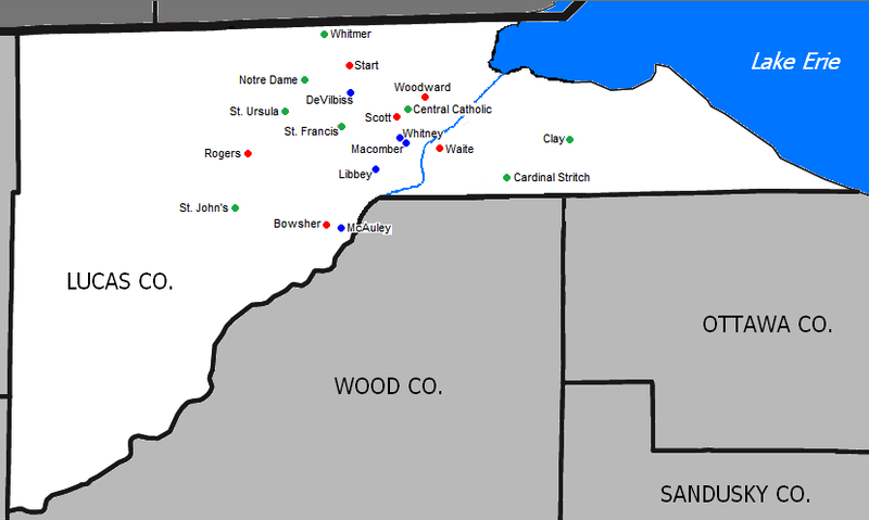 Map of the Toledo City League member locations